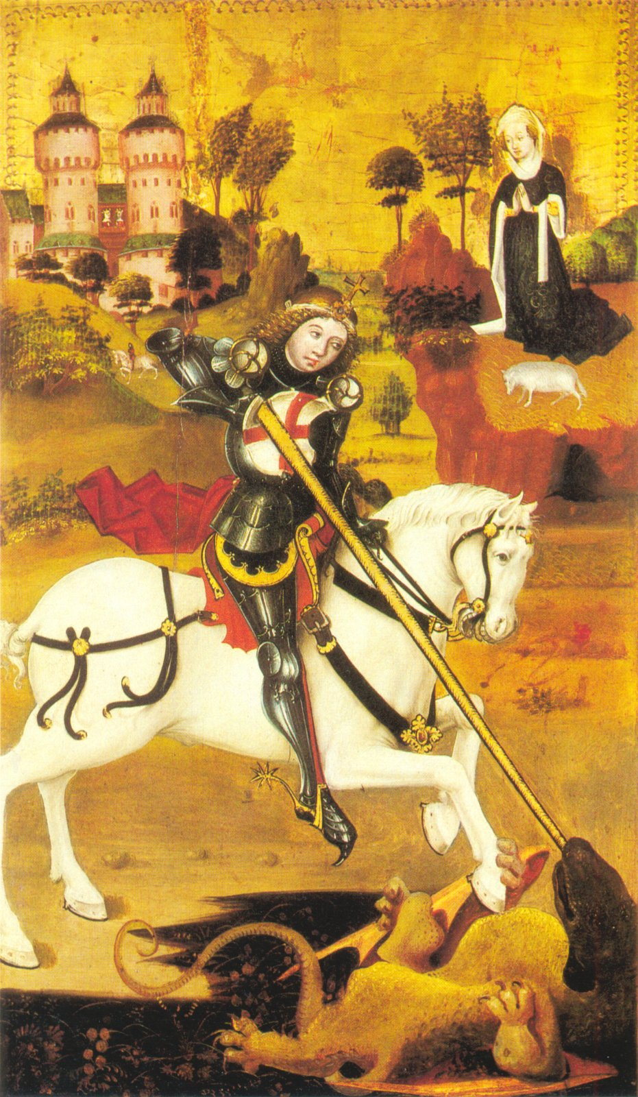 St. George and the Dragon, detail of the left wing. Tempera, linded wood covered with canvas, 192x56.5cm (whole size)